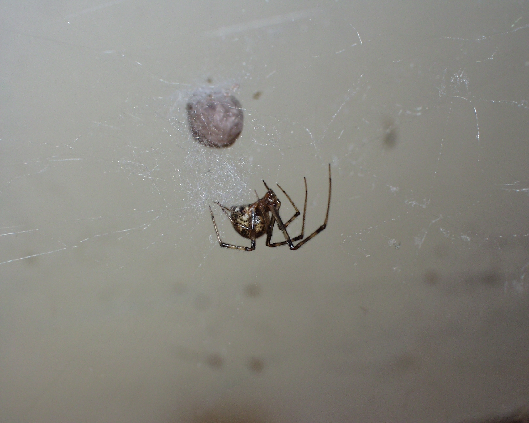 Parasteatoda tepidariorum and its egg sac. This spider and typical members of its Family construct irregular webs (cobwebs) in human habitations, barns, stables, etc., as well as relatively well sheltered, brushy, outdoor locations. Although the Family Theridiidae contains the genus Latrodectus, i.e., the several species of widow spiders, all members of this genus are eager to avoid humans. Among them, only the genus Latrodectus delivers bites that are dangerous to humans.